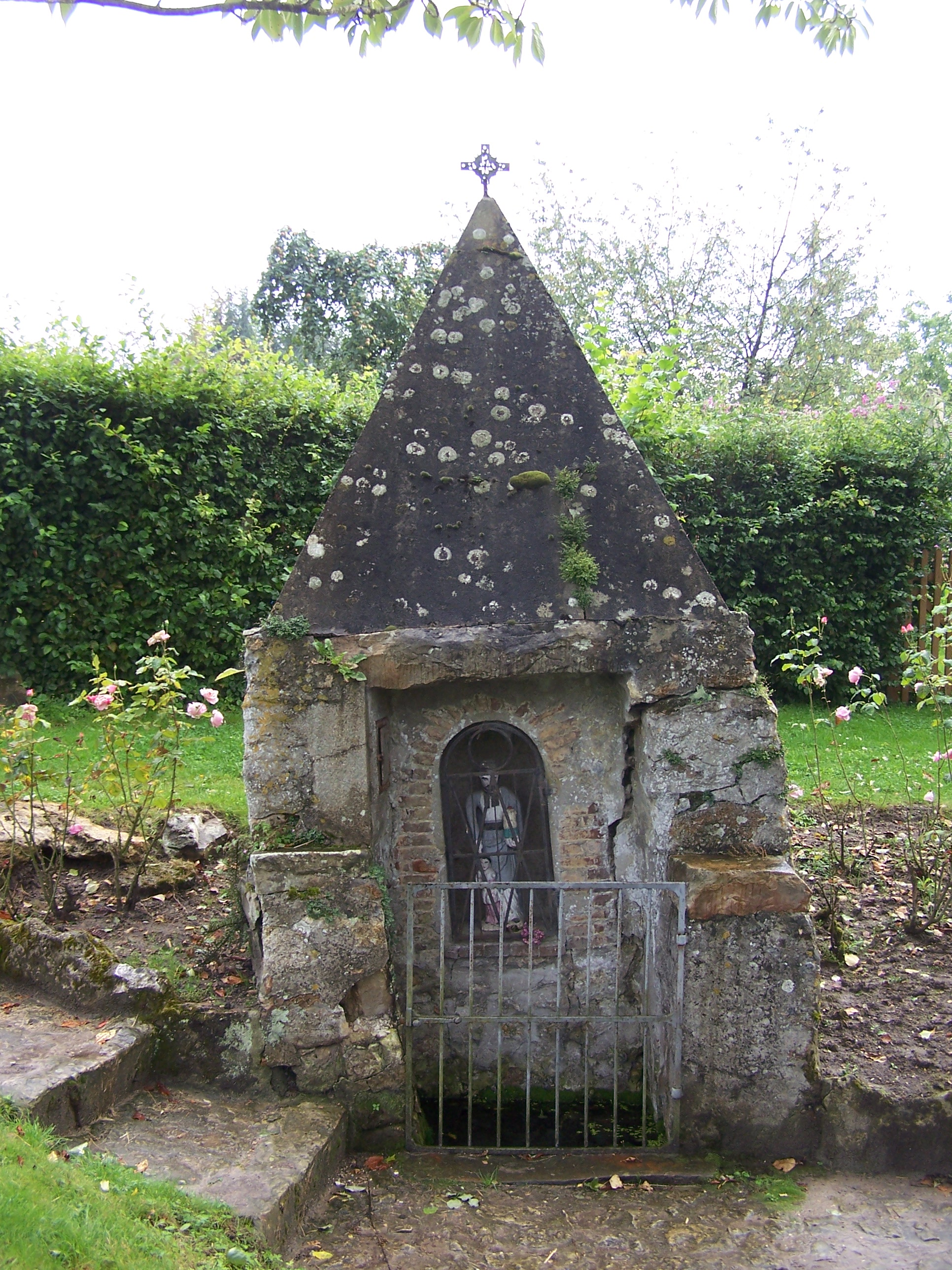 Oratory Saint Odo in Boissets (Yvelines, France)